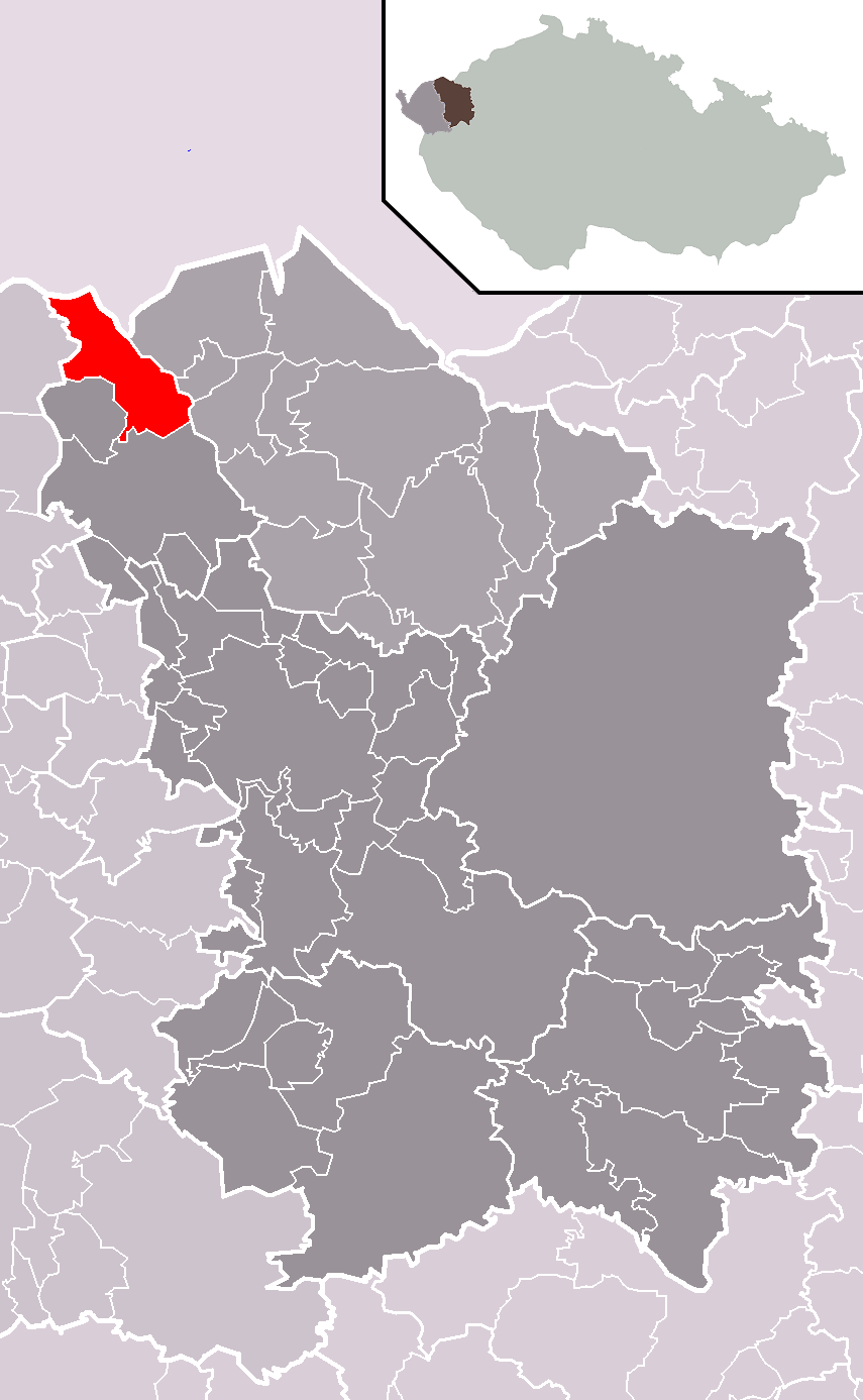 Location of Nové Hamry municipality within Karlovy Vary District and administrative area of Karlovy Vary as a Municipality with Extended Competence.